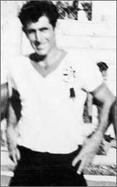 Shlomo Levi שלמה לוי